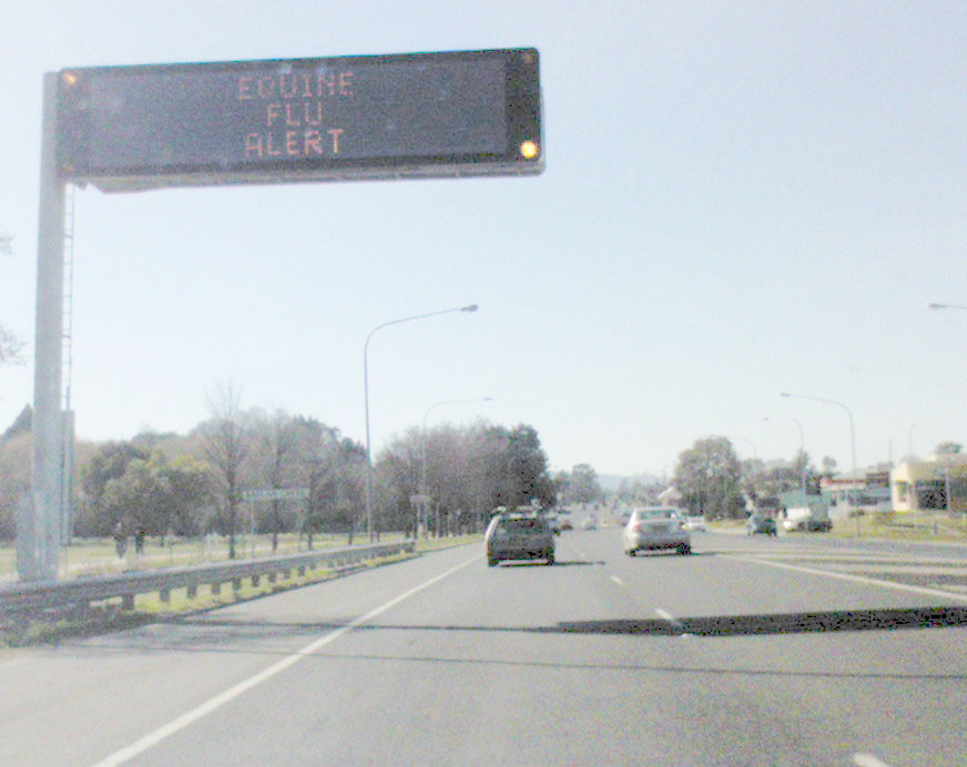 A road warning sign warning of Equine Influenza in NSW,Australia.